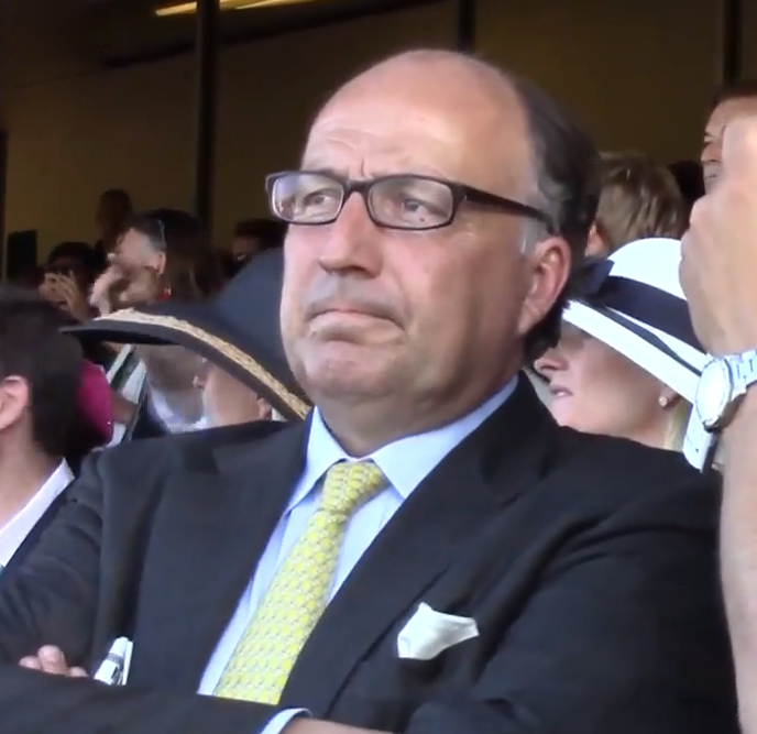 Christophe Clement, trainer of Tonalist, winner of the 2014 Belmont Stakes, watching the race